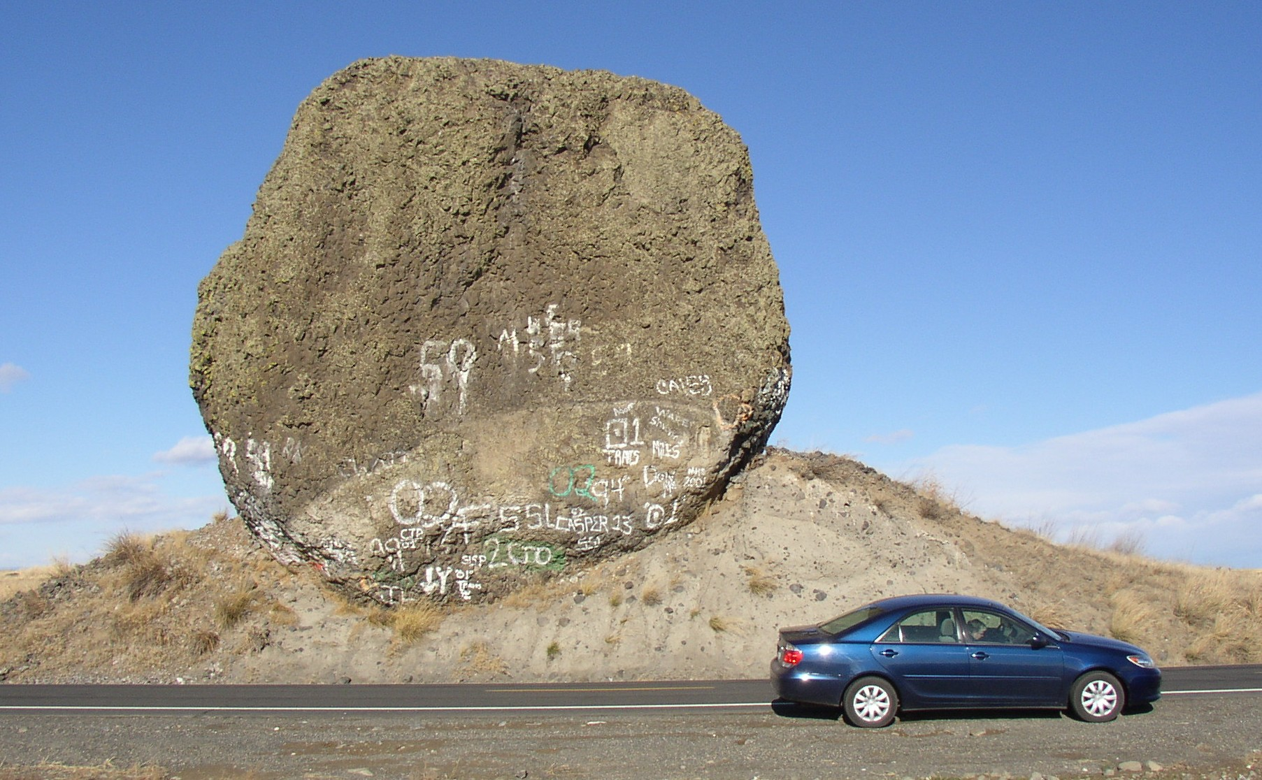 Yeager Rock is a large glacial erratic on the Waterville Plateau in Douglas County, Washington. Erratic was one of many dropped by the Okanagon lobe of the last glacial period. Part of the Sims Corner Eskers and Kames National Natural Landmark. Uploaded by photographer. All rights released. Williamborg 15:25, 12 November 2006 (UTC)